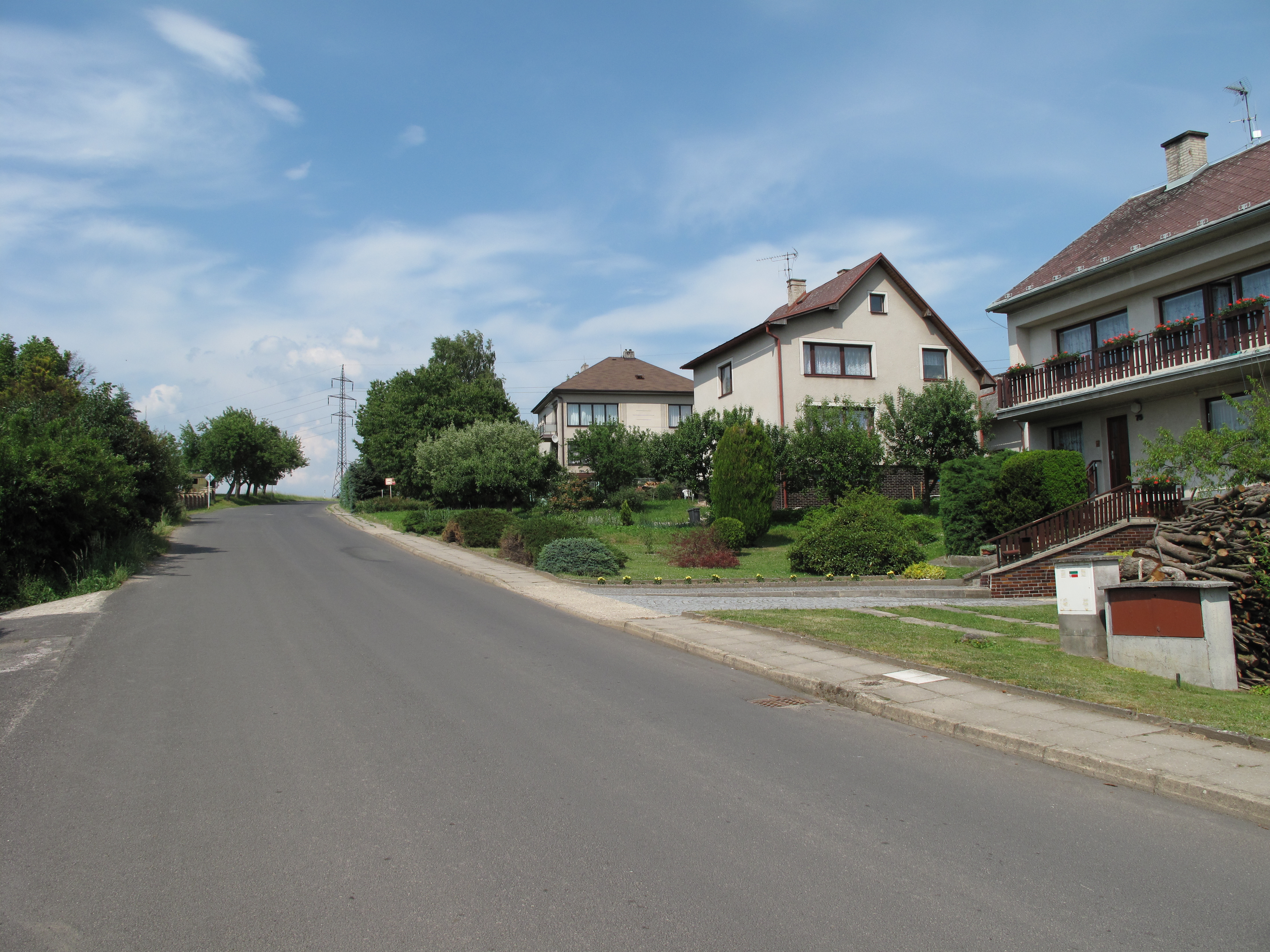 Houses by road in Radvánovice village, Semily District, Czech Republic.